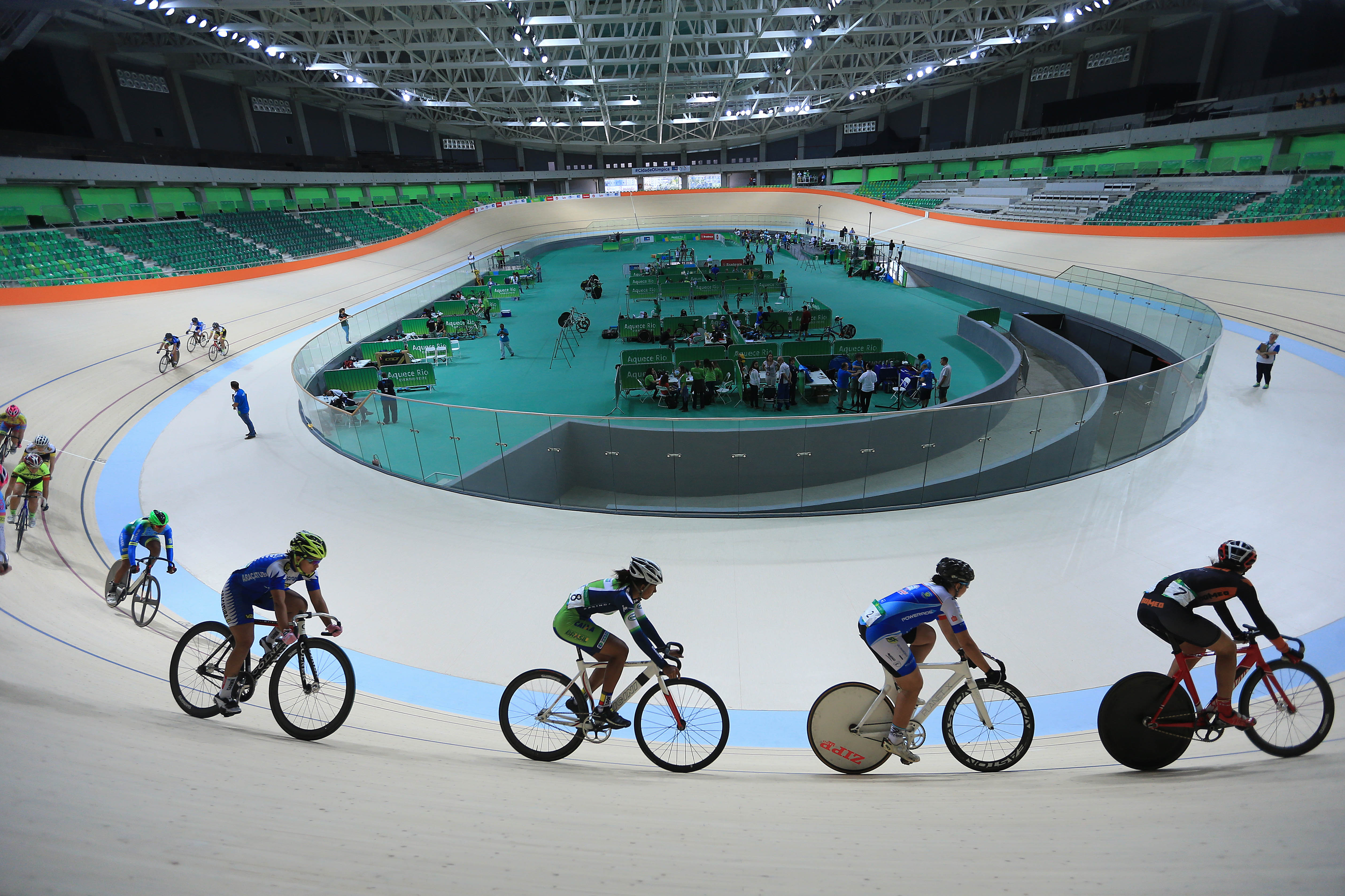 Rio Olympic Velodrome in Barra Olympic Park/ Cyclists from seven countries - Brazil, Switzerland, Australia, Russia, Japan, China and Hong Kong - tested the track.